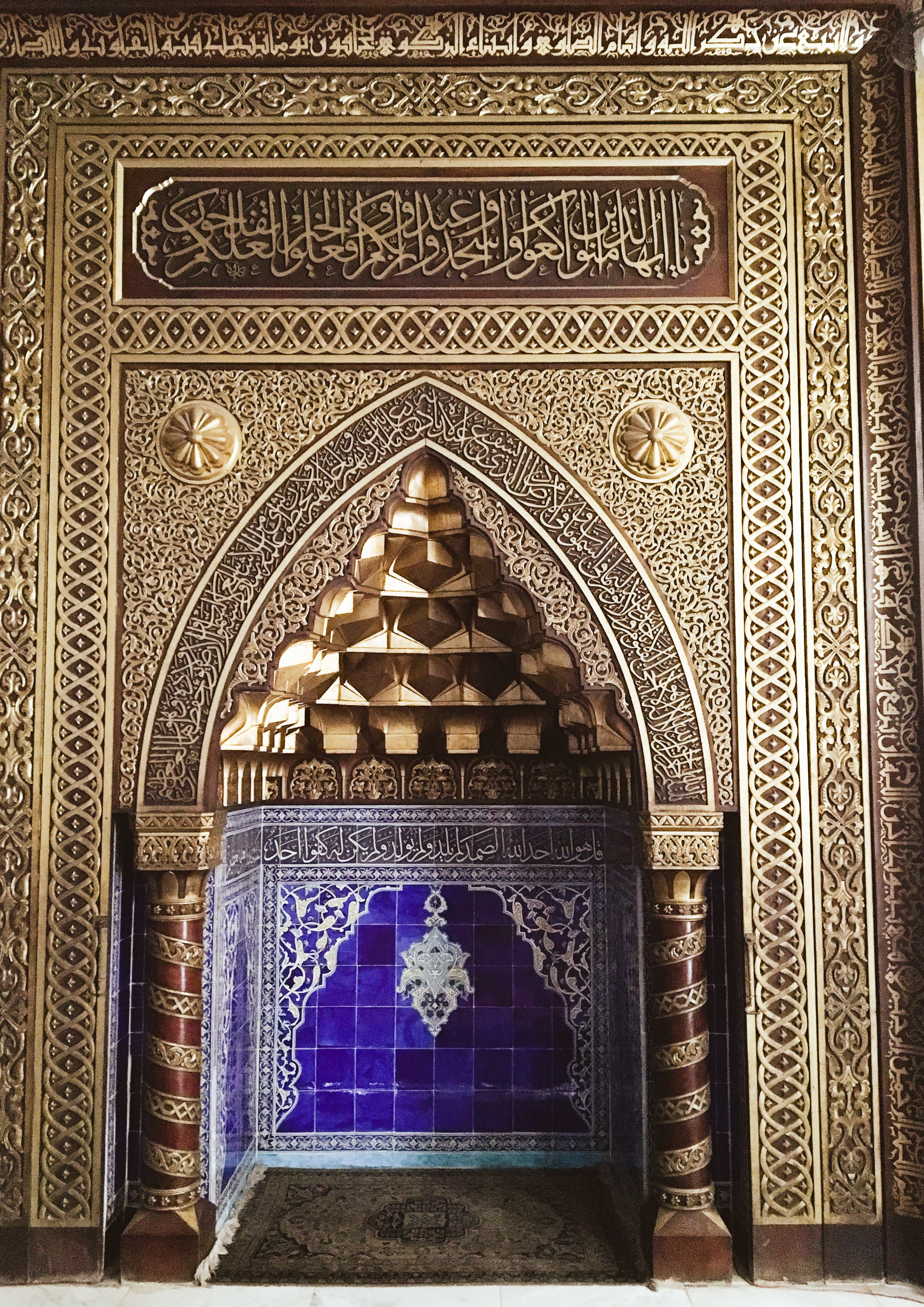 Mohammad Ali Tawfik Palace, Al-Manyal, Cairo. Egypt.